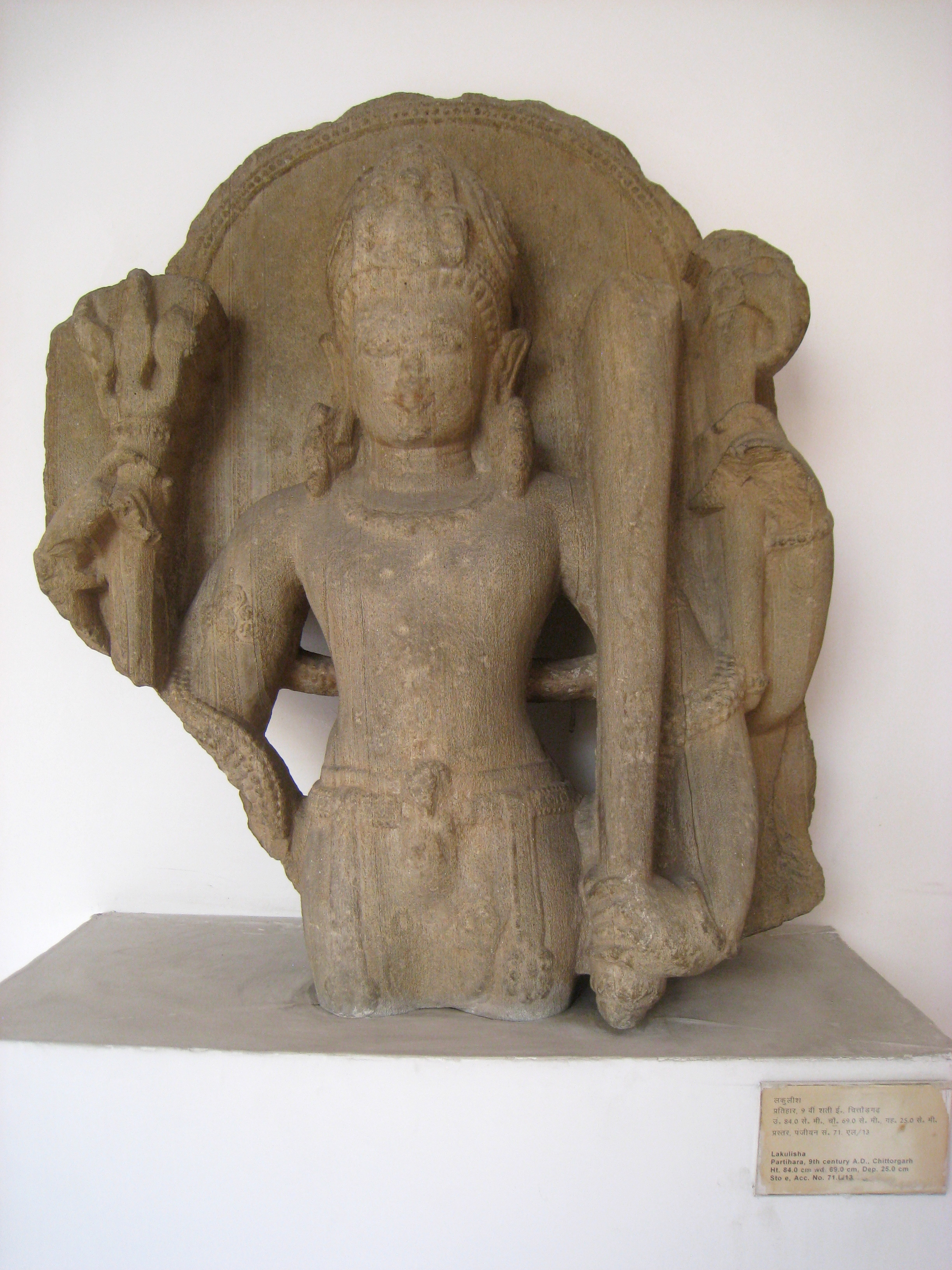 Lakulisha, Partihara, 9th century AD, Chittogarh. Stone sculpture in National Museum, New Delhi, India.